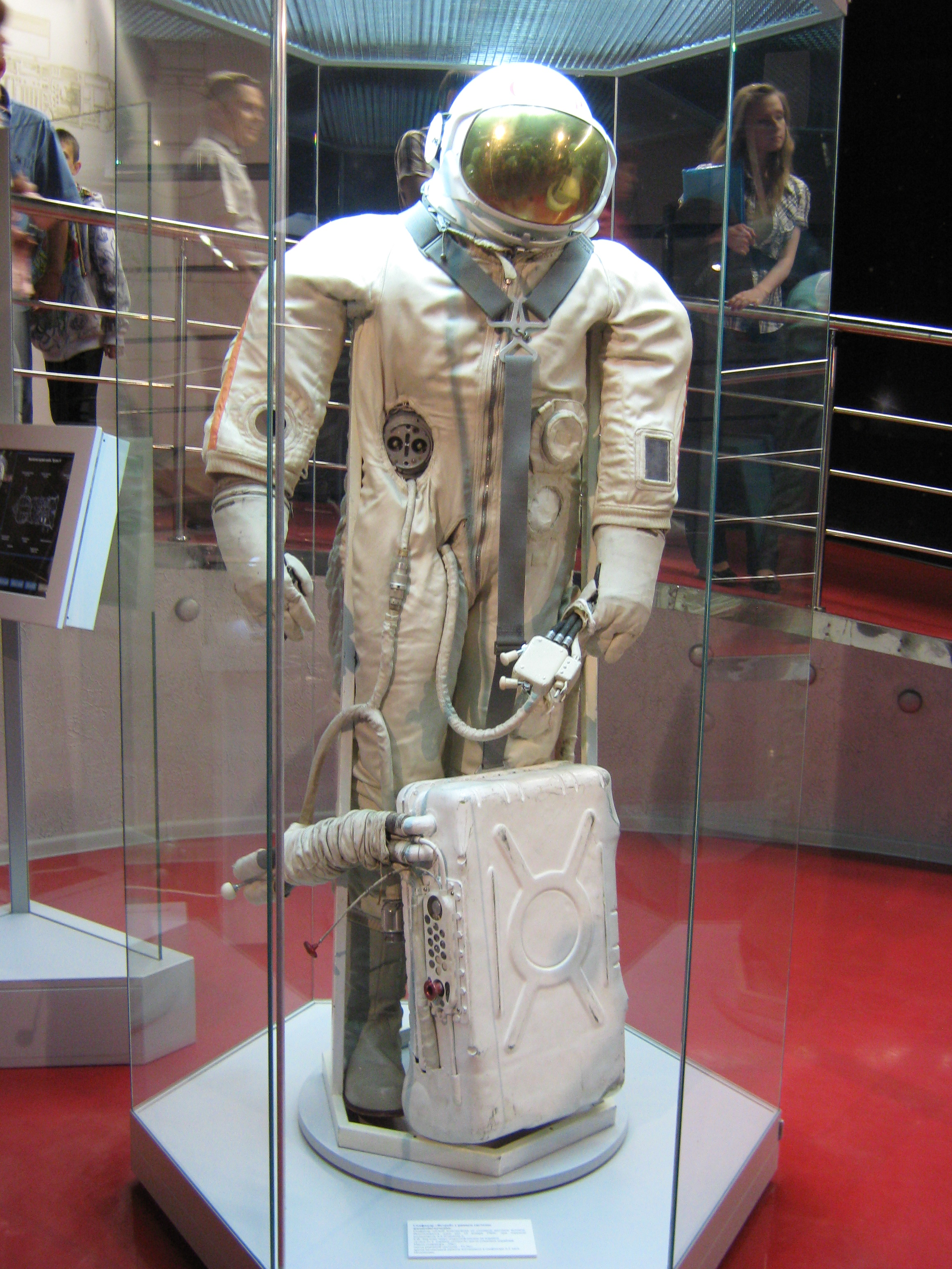 Yastreb space suit located at the Memorial Museum of Astronautics in Moscow, Russia.